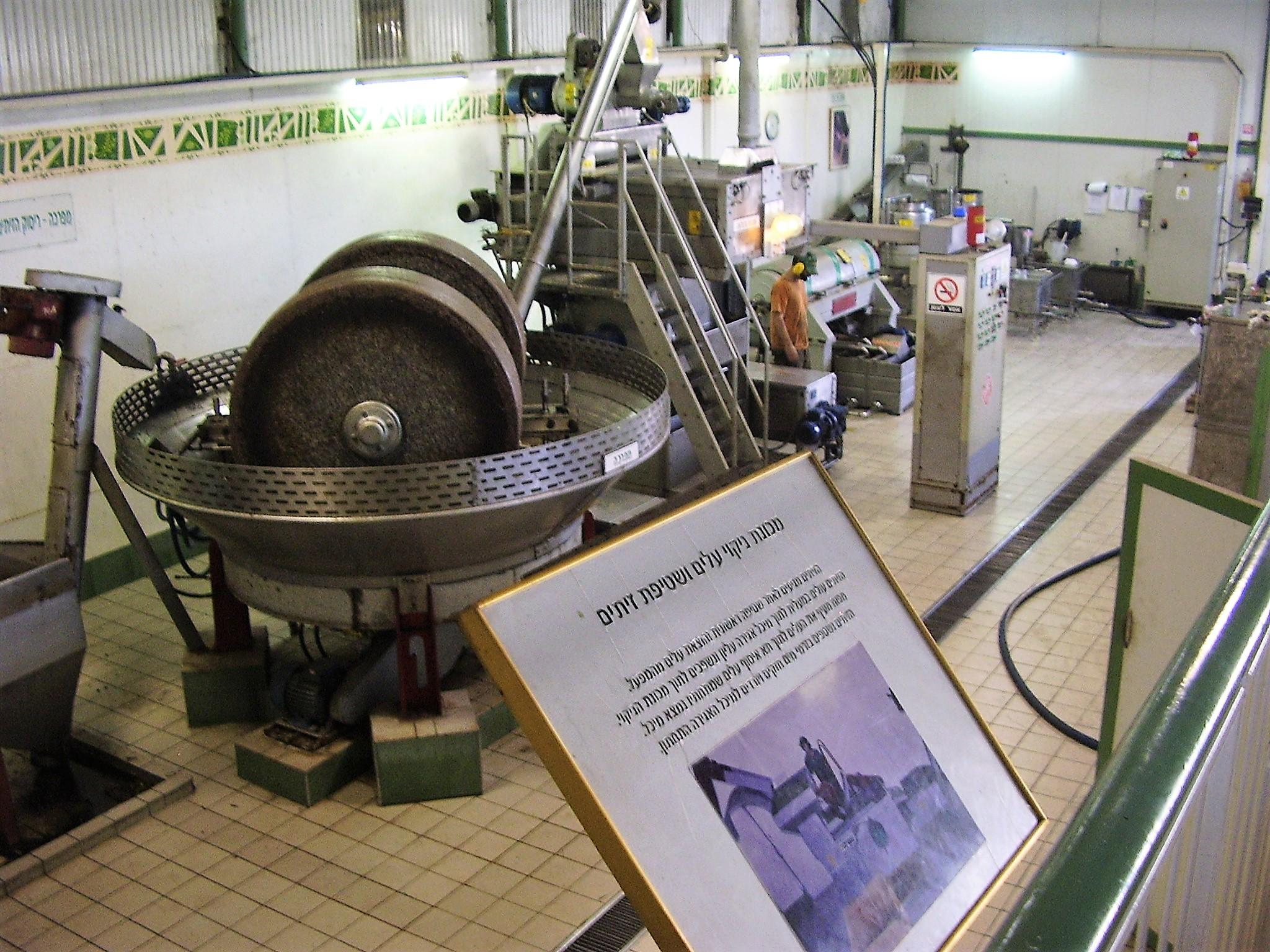 visitors center in the oil press in bnei darom